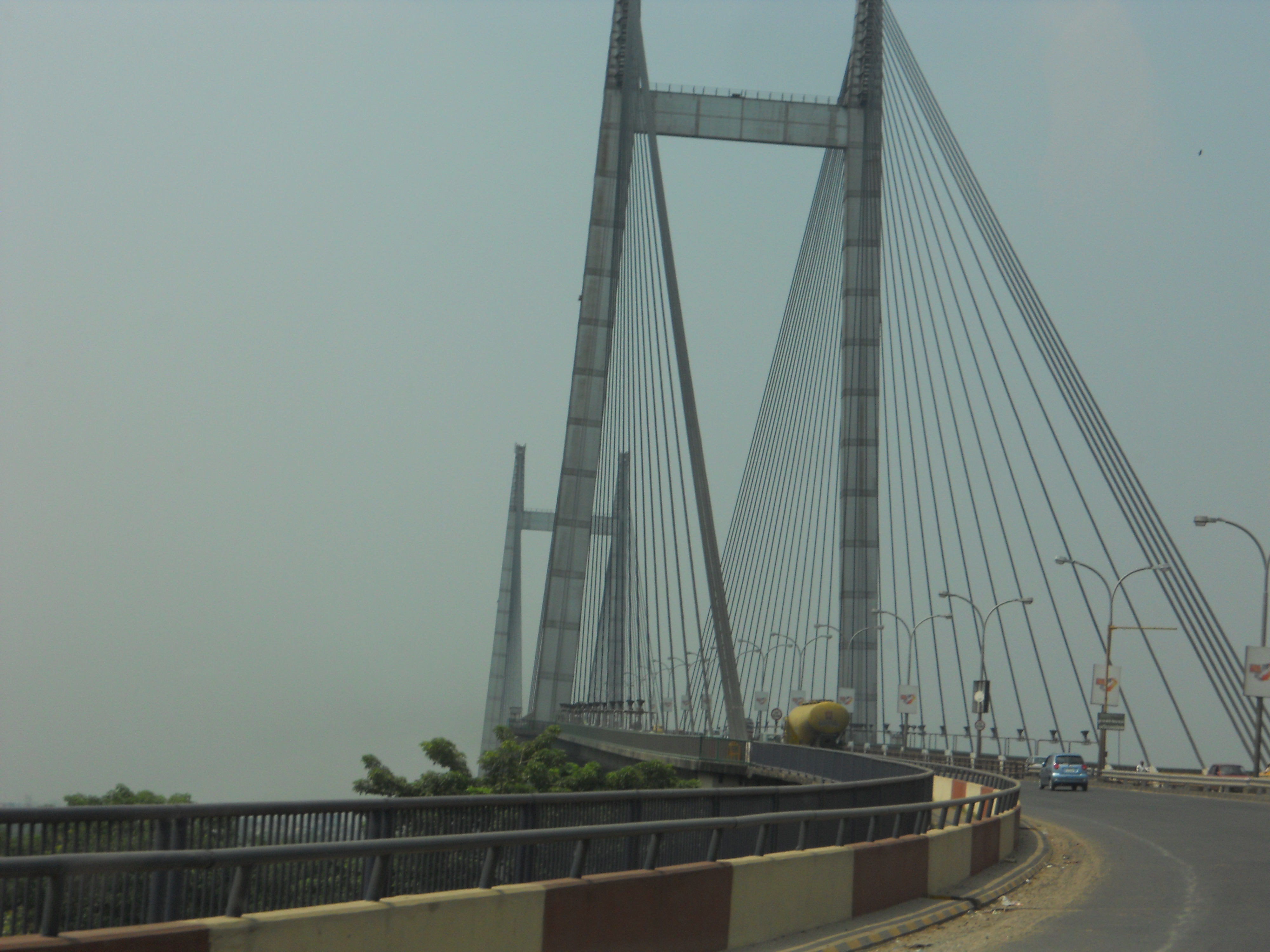 Vidyasagar Setu